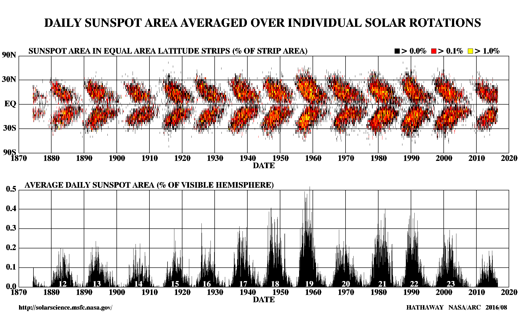 Butterfly diagram showing paired pattern of sunspots. Graph shows sunspot numbers. Spörer's law noted that at the start of an 11-year sunspot cycle, the spots appeared first at higher latitudes and later in progressively lower latitudes. The Babcock Model explains the behavior described by Spörer's law, as well as other effects, as being due to magnetic fields which are twisted by the Sun's rotation.